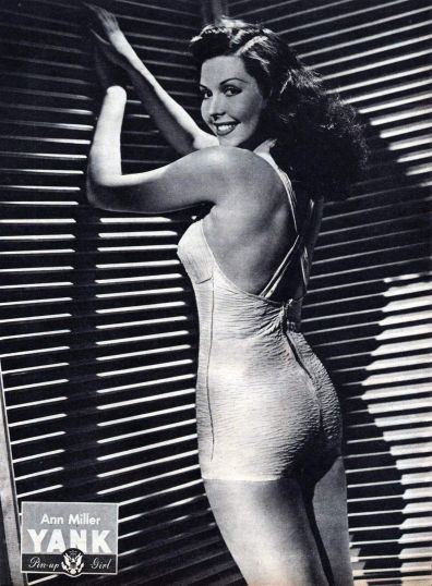 Pin-up photo of Ann Miller for the Jun. 29, 1945 issue of Yank, the Army Weekly, a weekly U.S. Army magazine fully staffed by enlisted men.